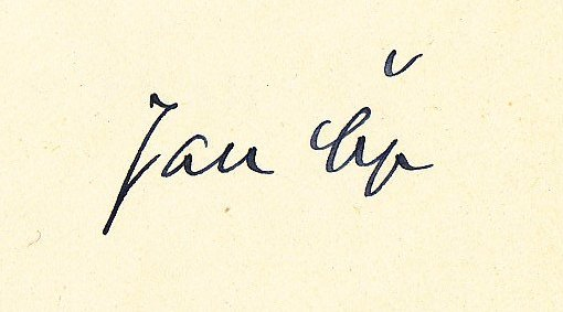 Signature of the Czech writer Jan Čep